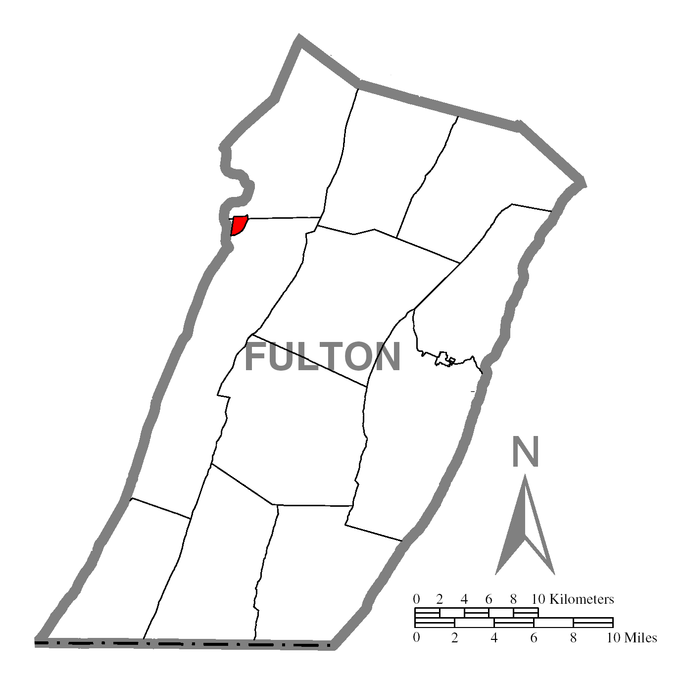 A map of Fulton County showing Valley-Hi, Pennsylvania (alternate) highlighted on the map.